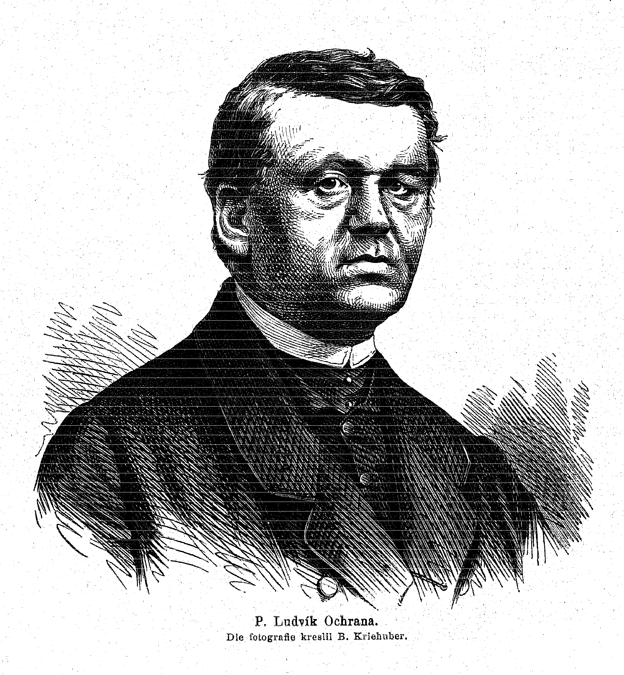 Portrait of Ludvík Ochrana (1814-1877), Czech priest in Austrian Silesia